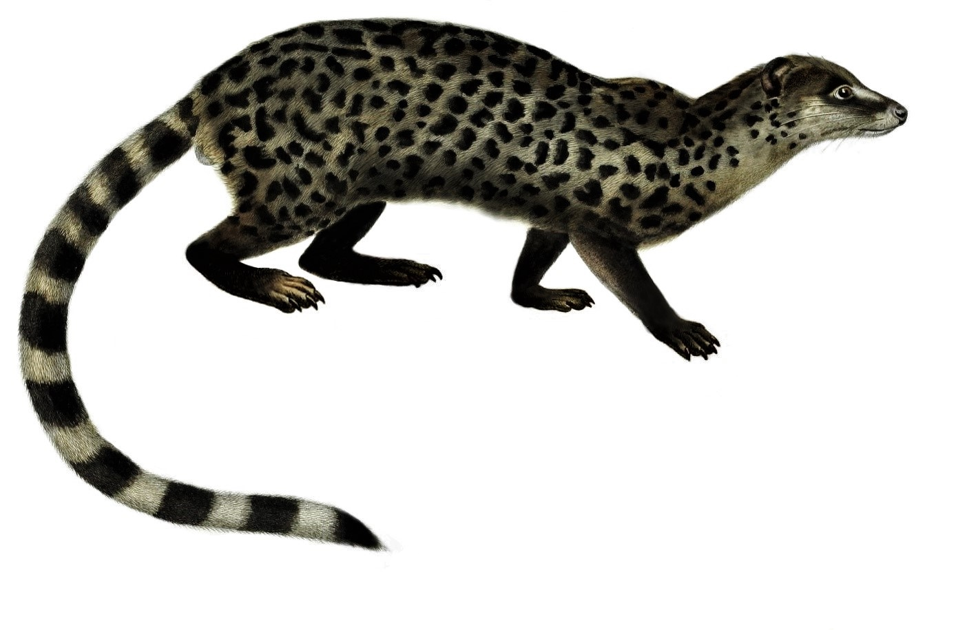 Miacis restoration based on Genetta servalina, with limbs modified to resemble Procyon